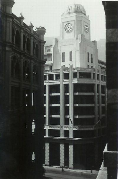 Gloucester Building was a former structure in Hong Kong, located at the intersection of Des Voeux Road Central and Pedder Street. It was later rebuilt into the Gloucester Tower and become part of the Landmark.